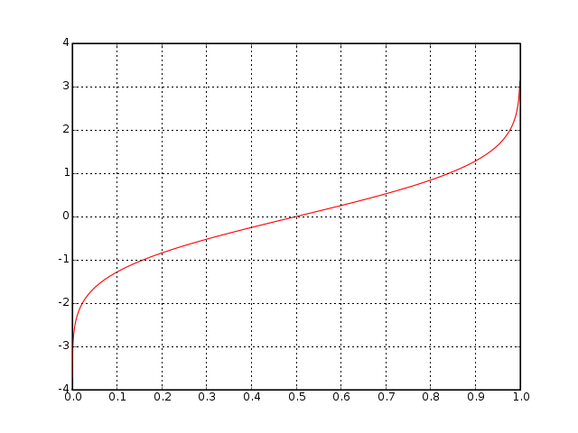 Probit plot. Original description: Plot of the probit function 2 erf − 1 ⁡ ( 2 p − 1 ) {\displaystyle {\sqrt {2 \,\operatorname {erf} ^{-1}(2p-1)} . I created this image myself with the following Python code: from matplotlib.pylab import * from scipy.special import erfinv def probit(p): return sqrt(2)*erfinv(2*p-1) x_i = arange(0.0001, 0.9999, 0.001) plot(x_i, probit(x_i), 'r') xlabel('probability') ylabel('probit') grid(True) xticks(arange(0, 11)/10.0) savefig('image.png', dpi=80)